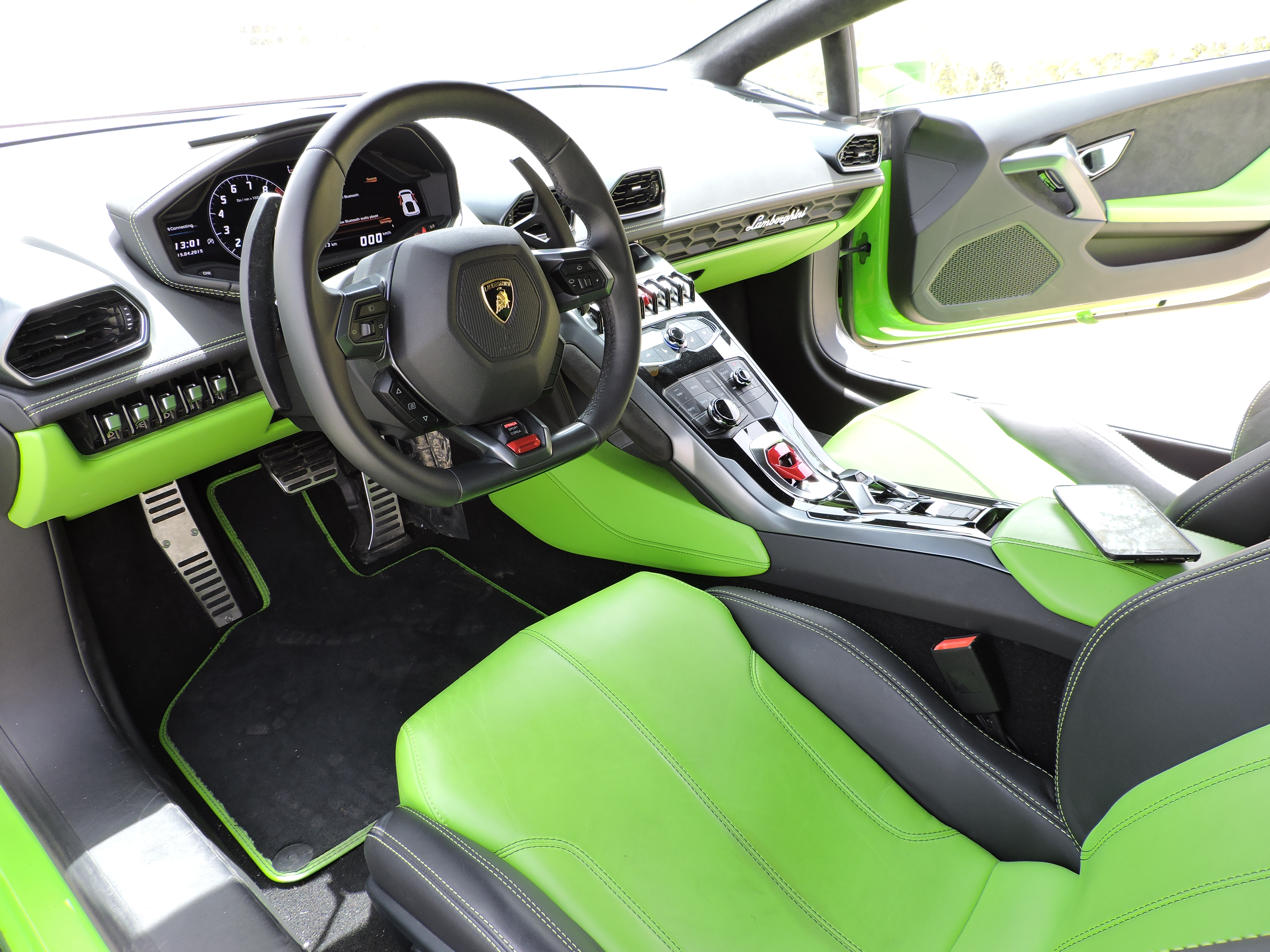 Lamborghini Huracan Interior